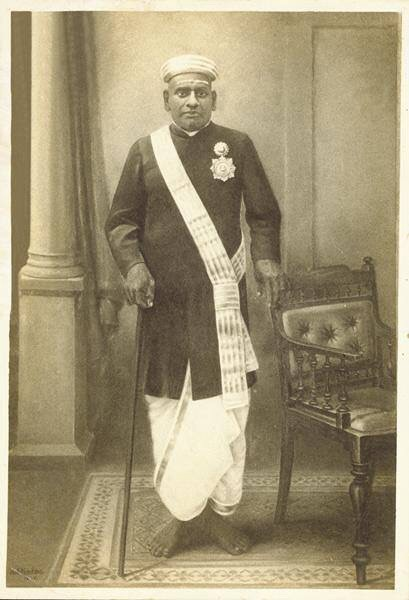 Photo of T. Ganapati Sastri, renowned Sanskrit scholar who worked in Trivandrum, Kerala, in the early 20th century.